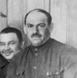 Mikhail Lashevich attending the 8th Party Congress in 1919.